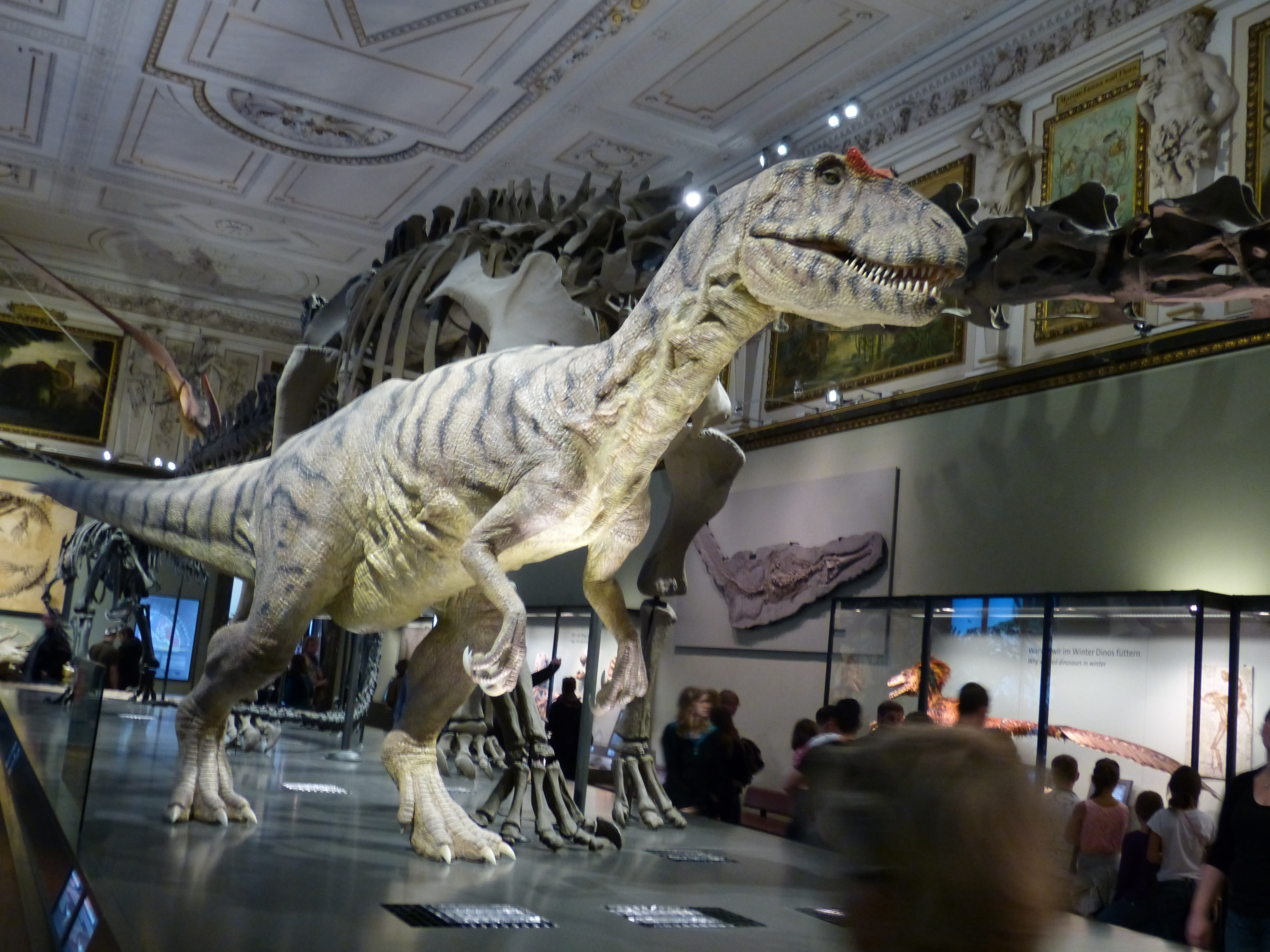 Museum of Natural History ( Vienna ). Model of Allosaurus fragilis.